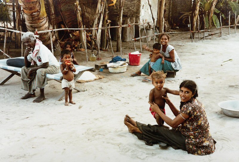 Historical life in Ukulhas long time back